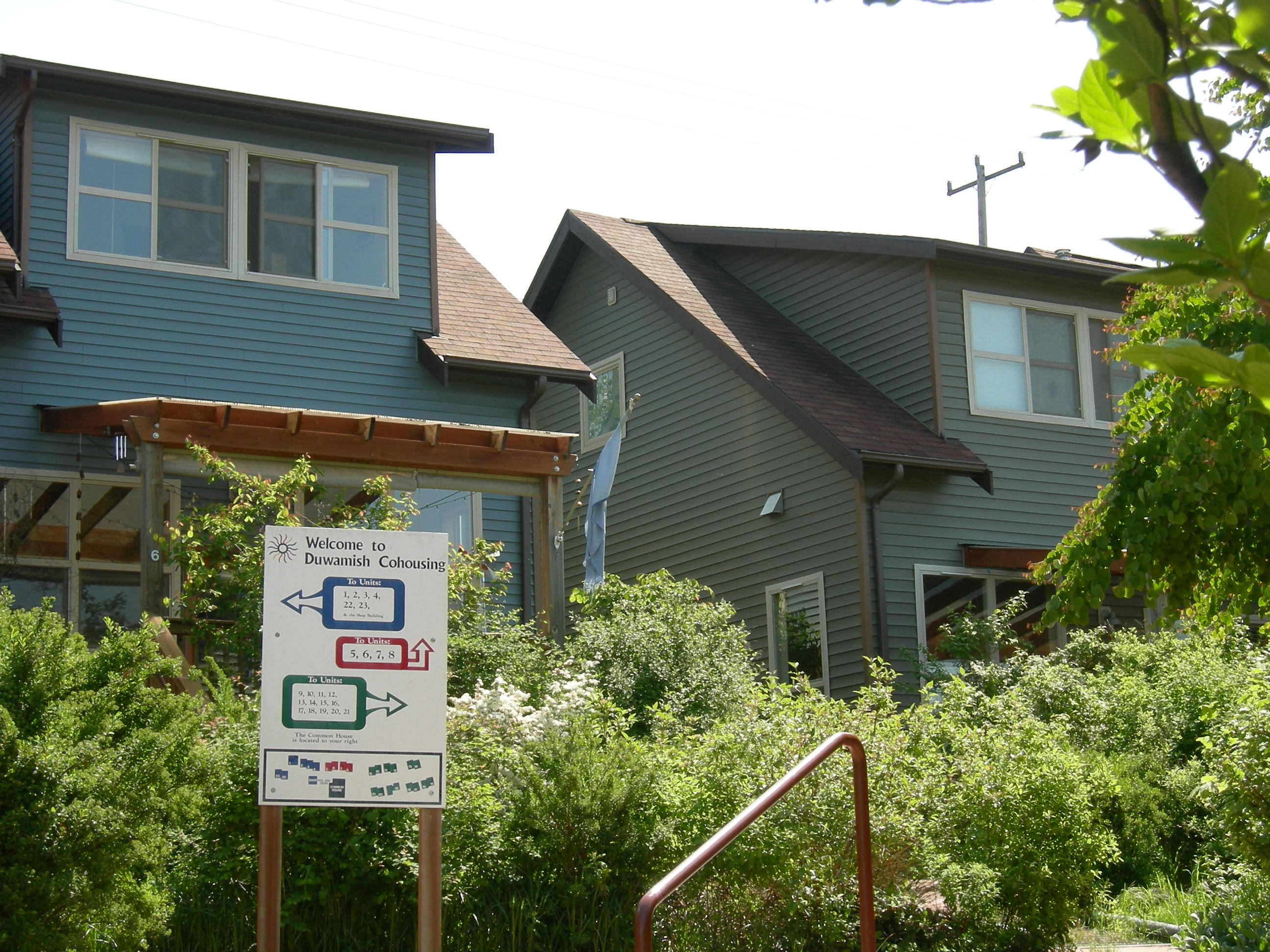 Duwamish Cohousing (formerly Ciel Cohousing), West Seattle, Seattle, Washington.